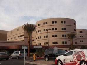 Billy Davis and Mickey Mantle Lobbied the Arizona Legislature to get the Del Webb Memorial Hospital